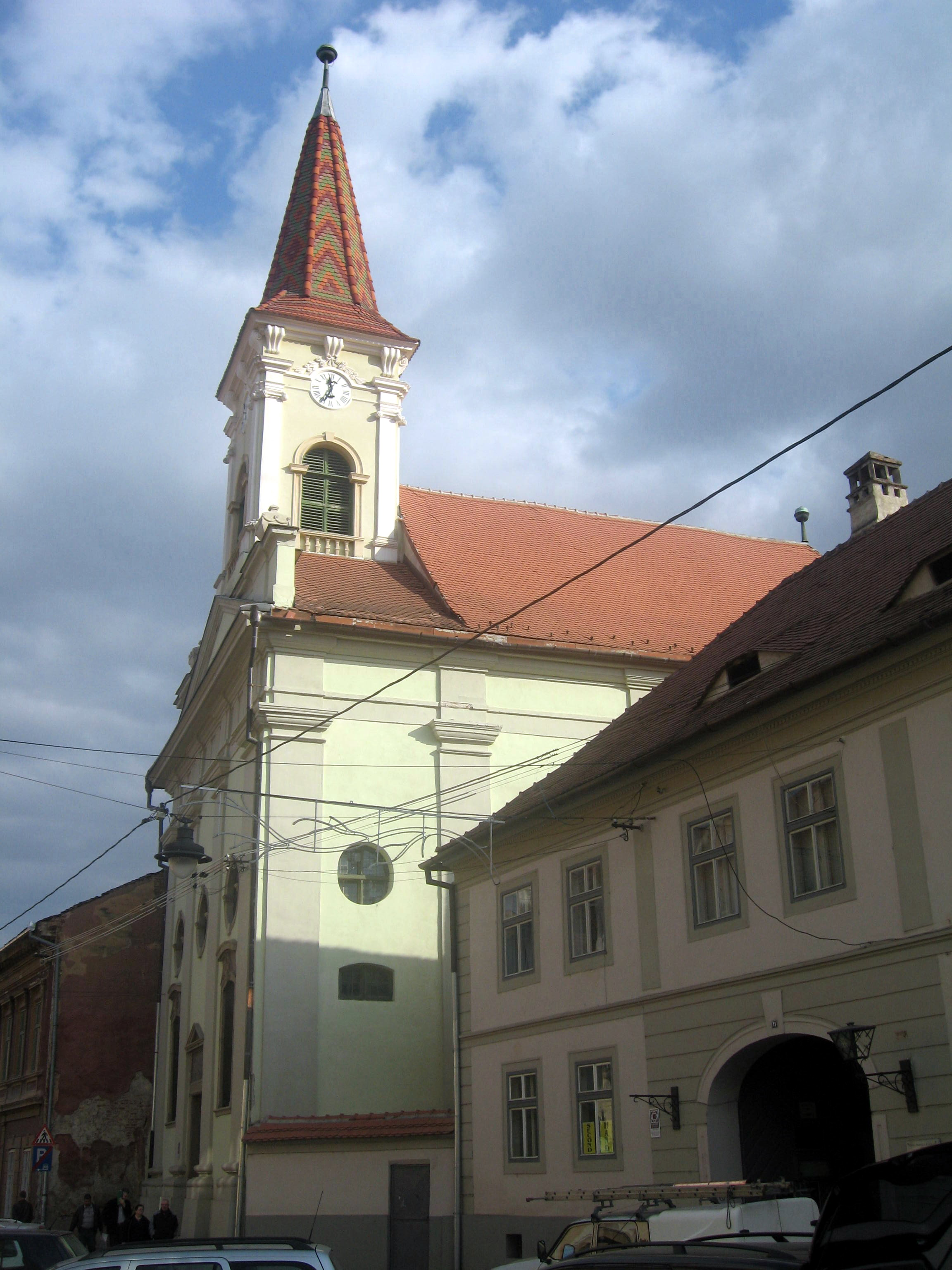 Reformed Church in Sibiu